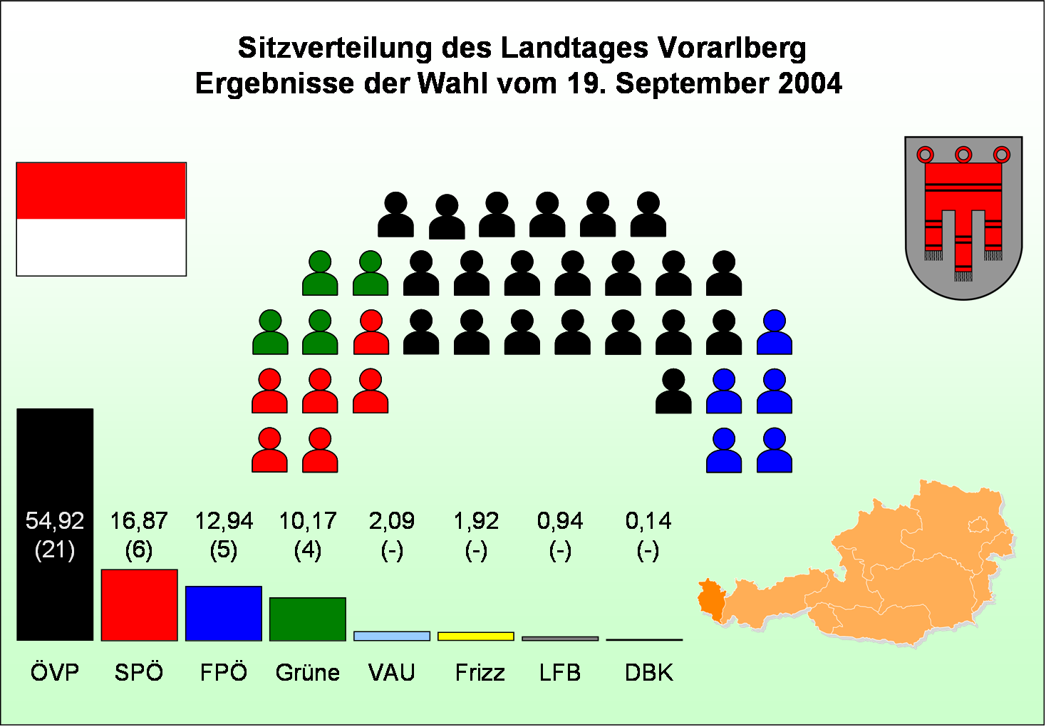 seating of the Landtag Vorarlberg